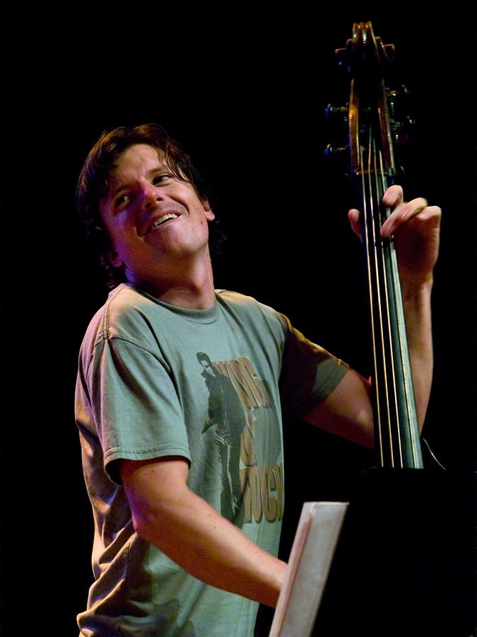 Matt Penman, moers festival 2007